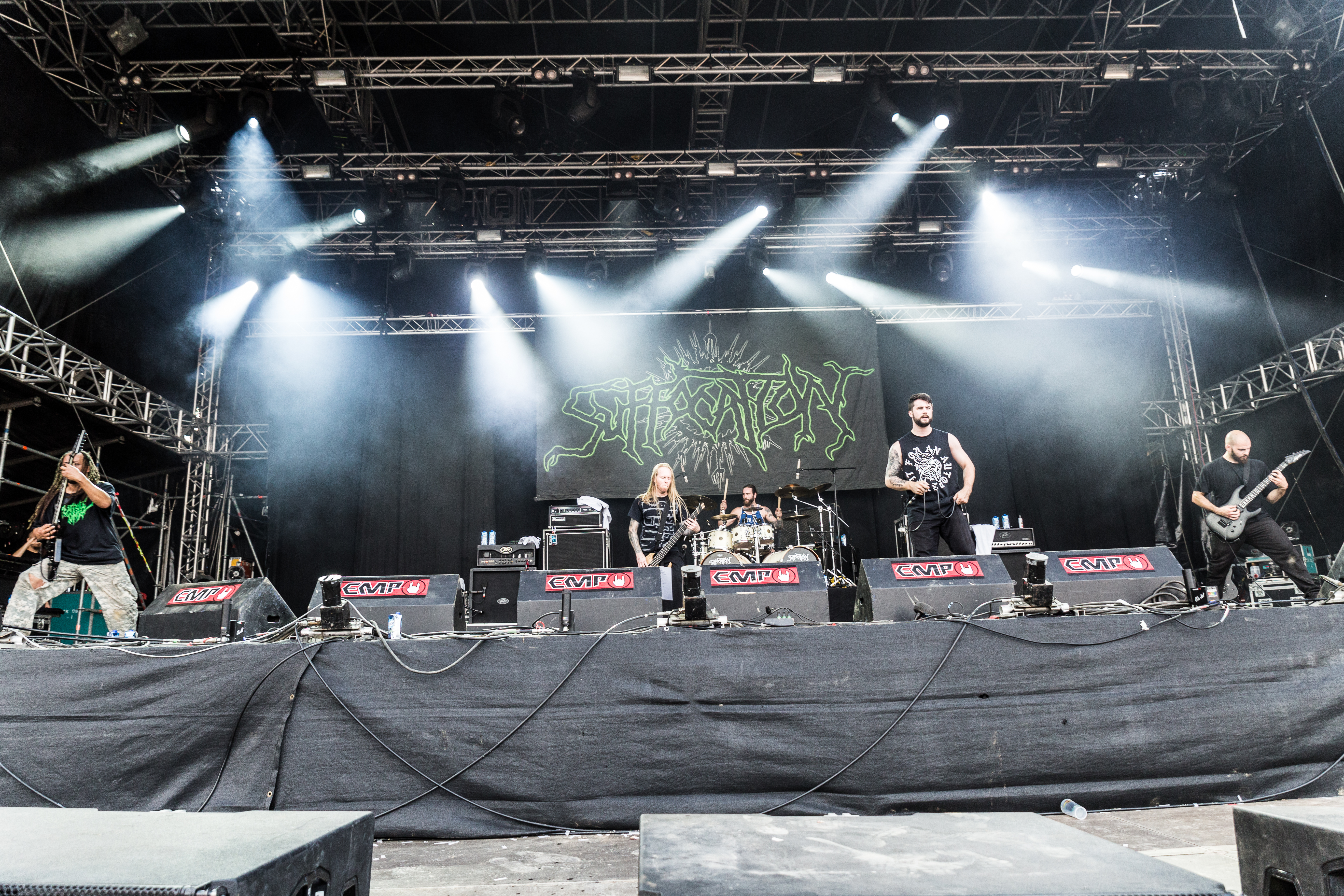 The American death metal band Suffocation at the Summer Breeze Open Air 2017 in Dinkelsbühl/Germany.